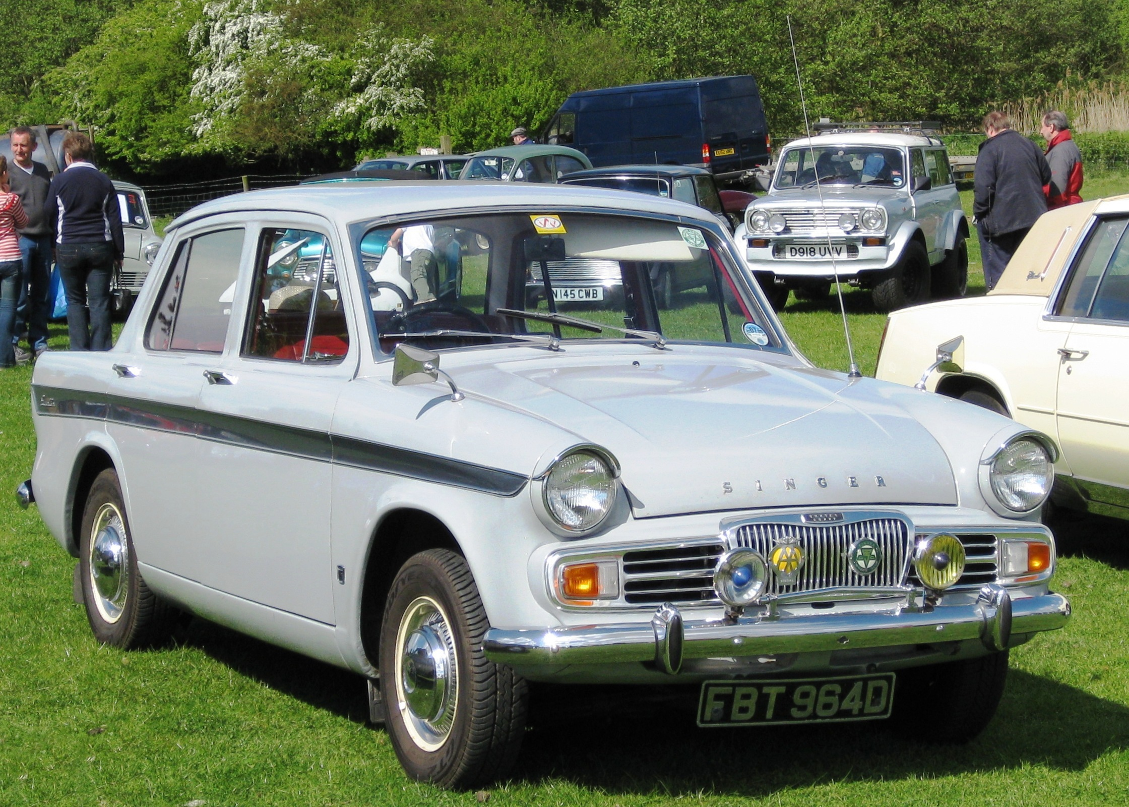 Singer Gazelle VI with flattened grill which differentiaytes it visually from Gazelle V